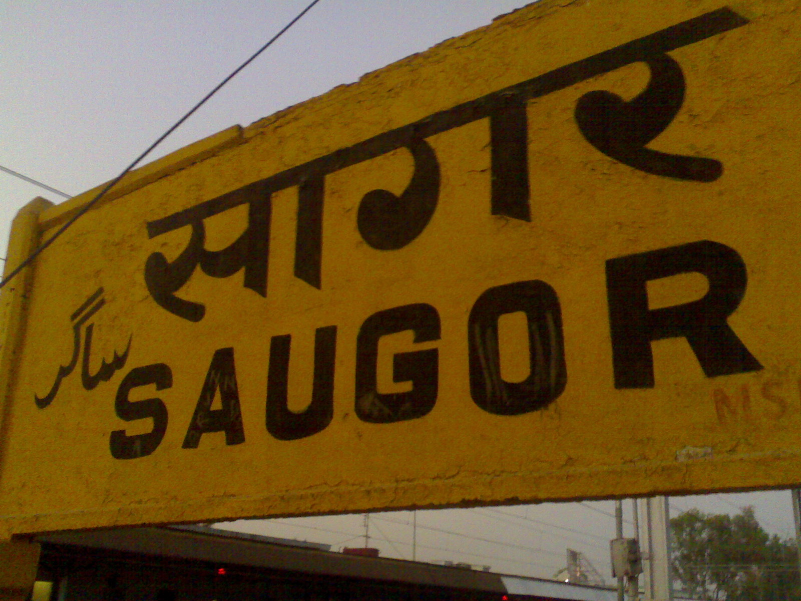 logo of Saugor railway station stating the real name Saugor, not Sagar (uploaded specially for user spacemen spiff)